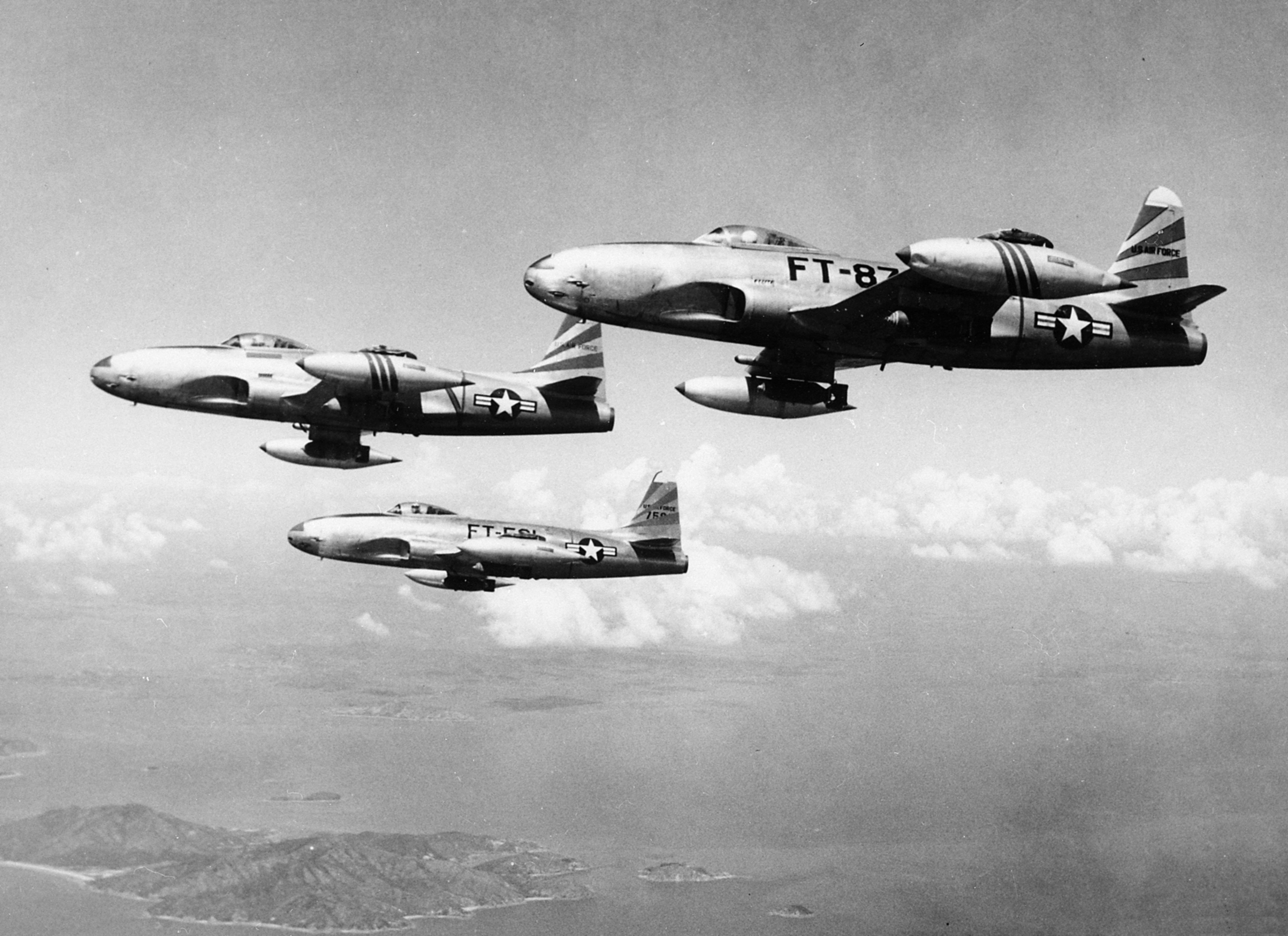 Three U.S. Air Force Lockheed F-80C Shooting Star fighters of the 8th Fighter Bomber Wing armed with two 227 kg bombs each flying towards a target in Korea, August 1952.